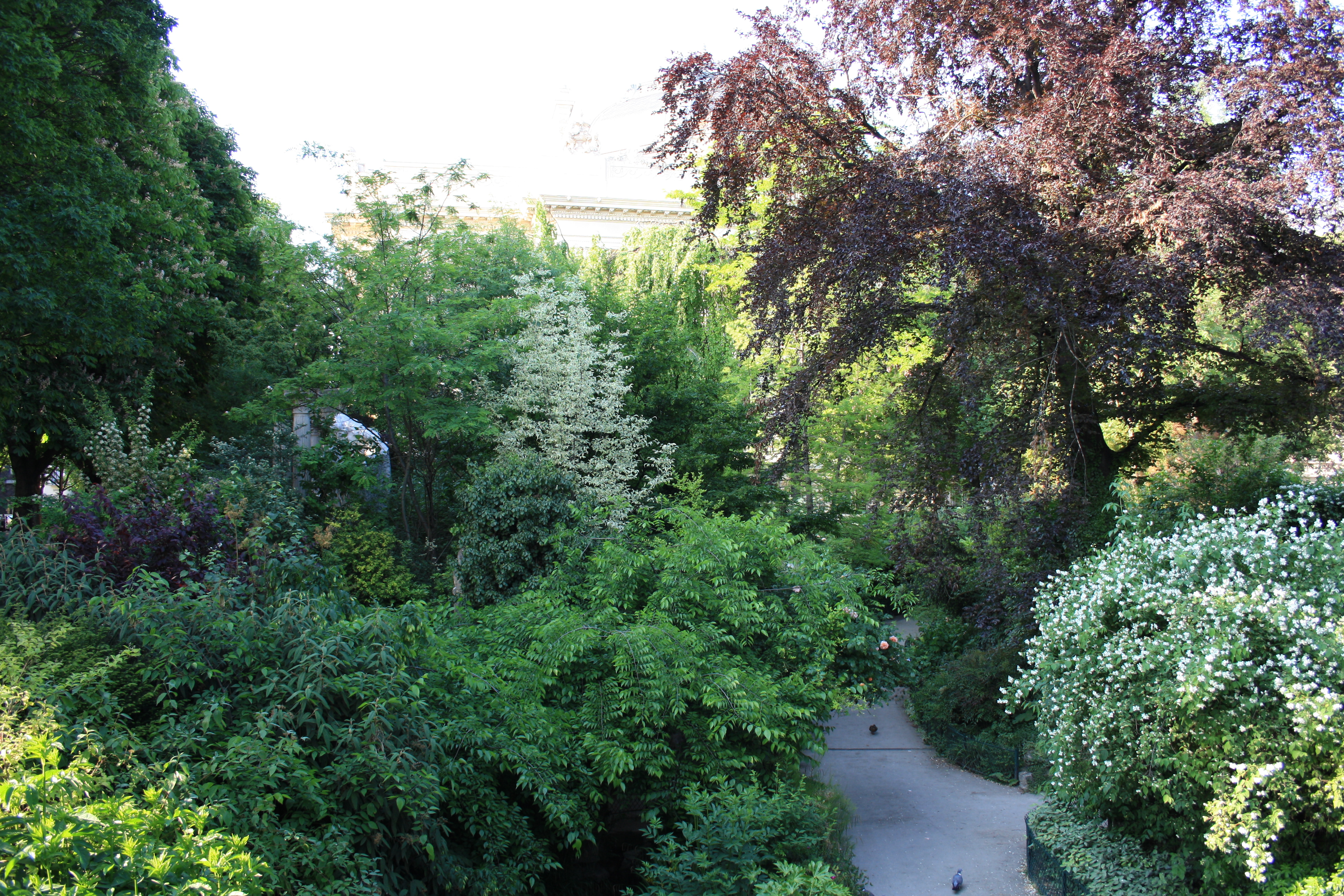 Jardin de la vallée suisse in Paris, France